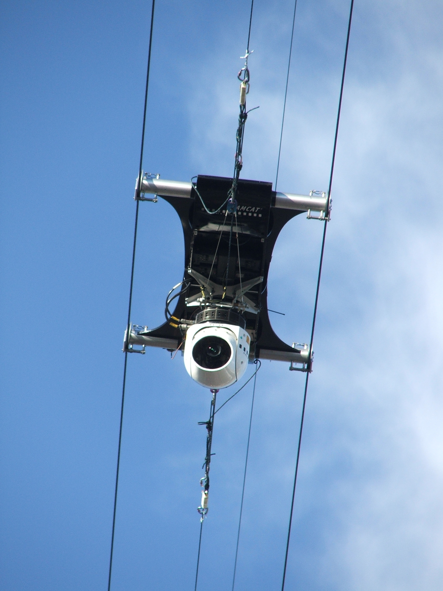 Cable car-style remote-controlled video camera (CAMCAT) as used at Pope Benedict XVI's outdoor mass in Munich in September 2006.